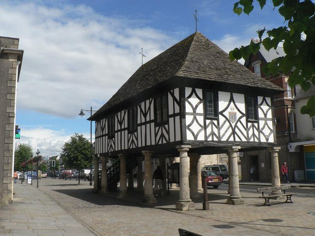 Wootton Bassett: town hall An interesting building in the centre of Wootton Bassett's High Street, without a ground floor.